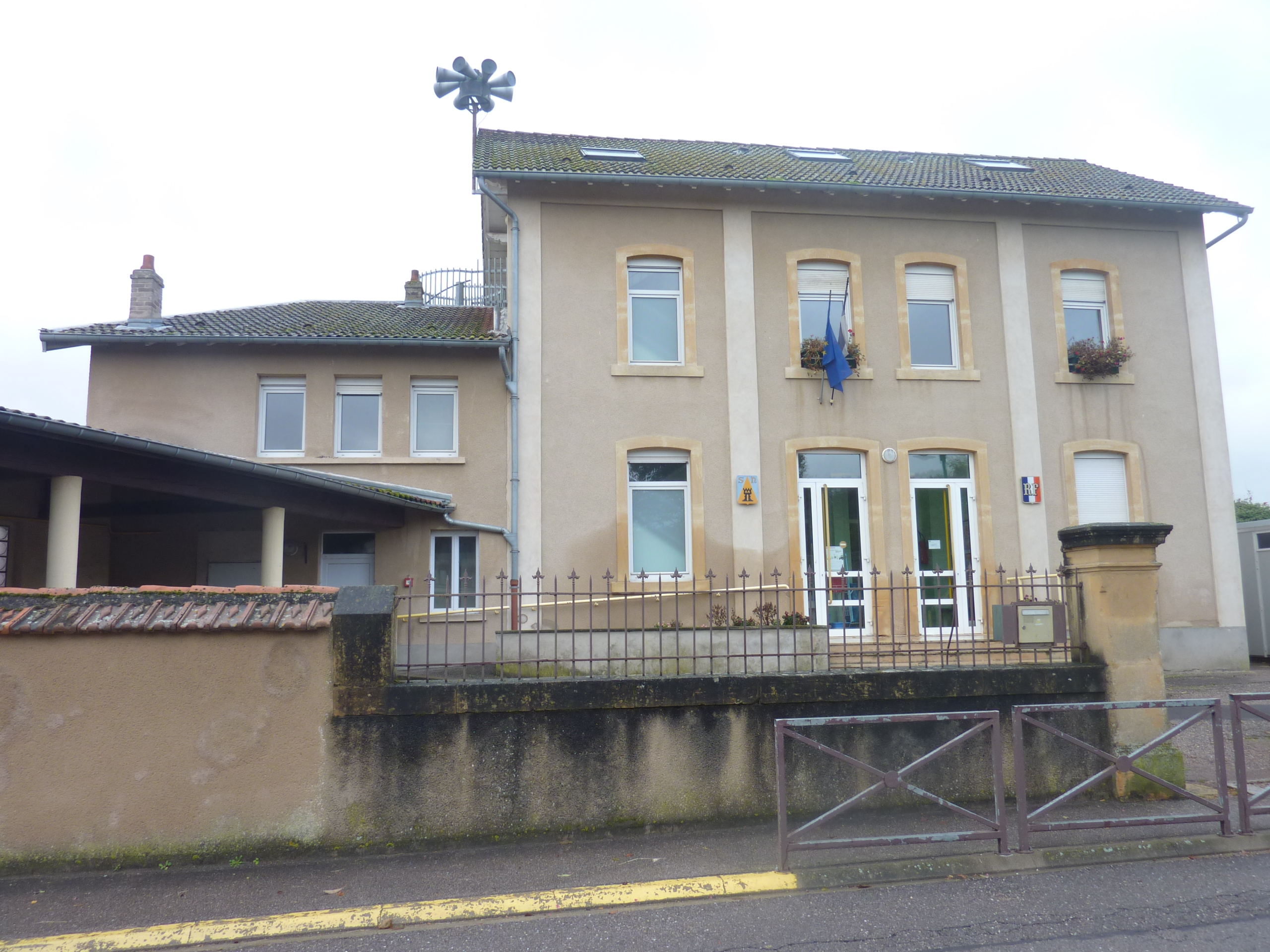 The town hall in Cuvry (Moselle), France.